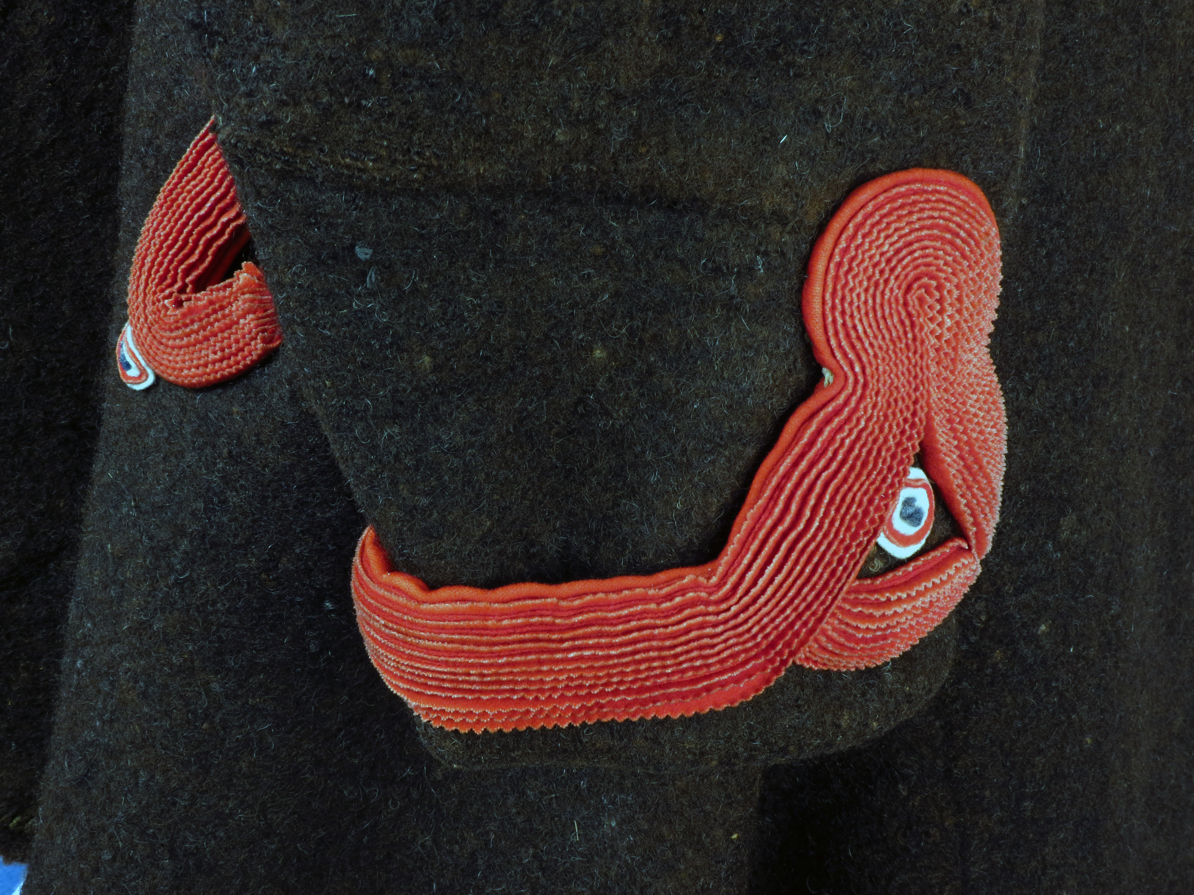 Gunia, woolen topcoat (sleeve - detail). Material: homespun cloth. Locality: Ochotnica Dolna. Ethnographic region: Podhale. The collection of The State Ethnographic Museum in Warsaw. PME 3671